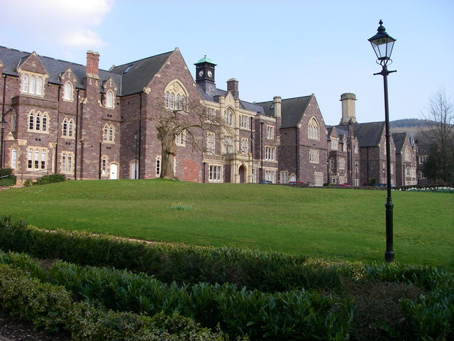 Hospital into housing This former hospital on the eastern edge of Abergavenny has been converted into dwellings in parkland surrounds.